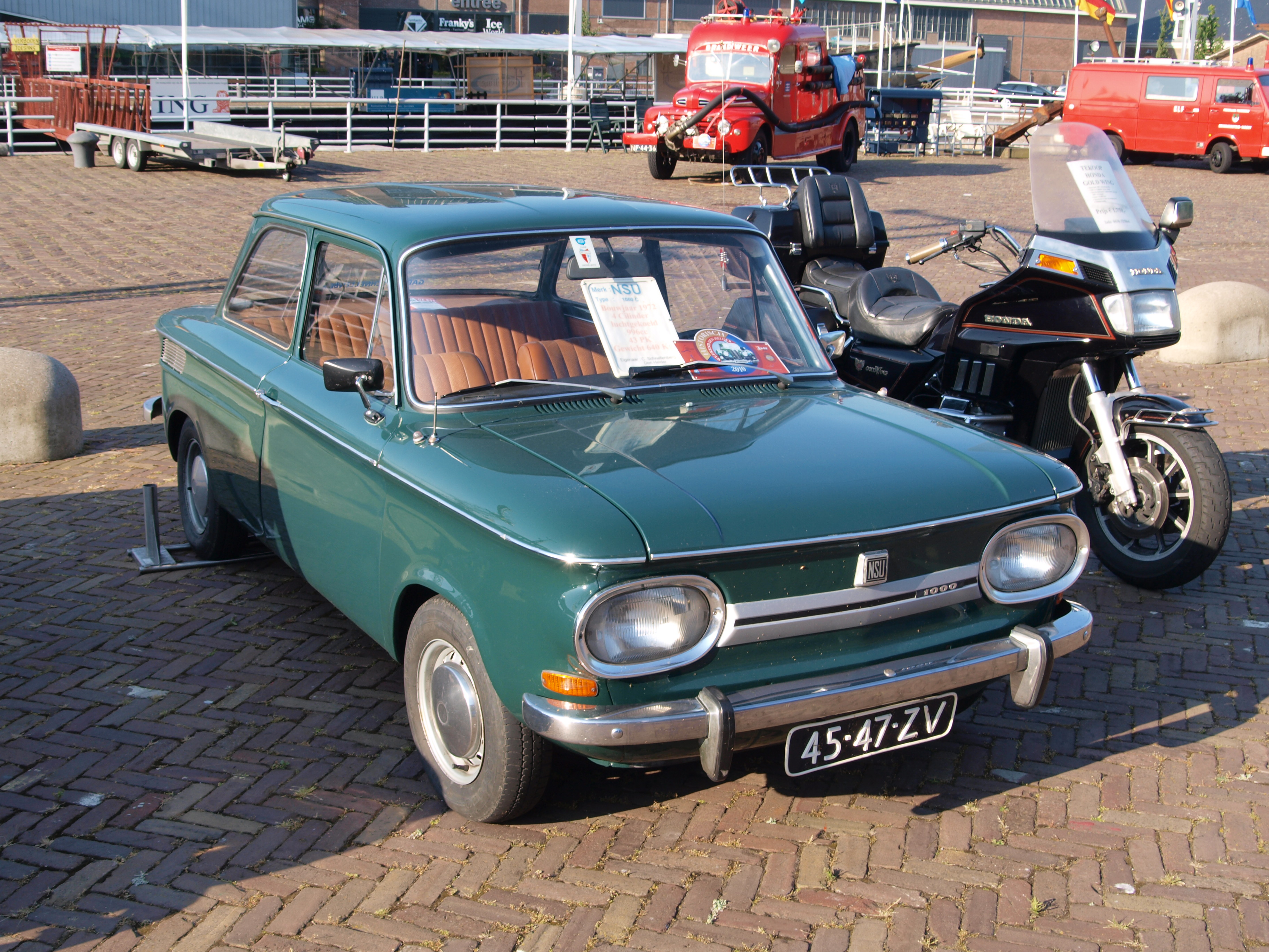 Photographed at Den Helder, The Netherlands. OLYMPUS DIGITAL CAMERA